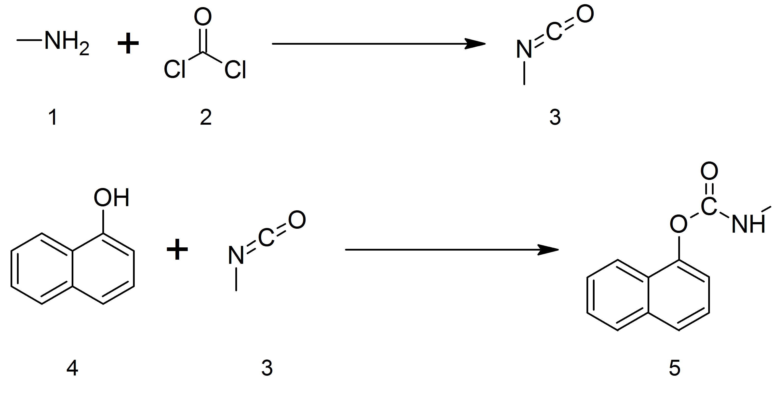 Synthesis of carbaryl, which uses methyl isocyanate. Adapted from Thomas A. Unger (1996) Pesticide synthesis handbook (Google Books excerpt), William Andrew, pp. 67-68 ISBN: 0815514018.